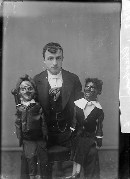 1 negative : glass, dry plate, b&w ; 11 x 8.5 cm.